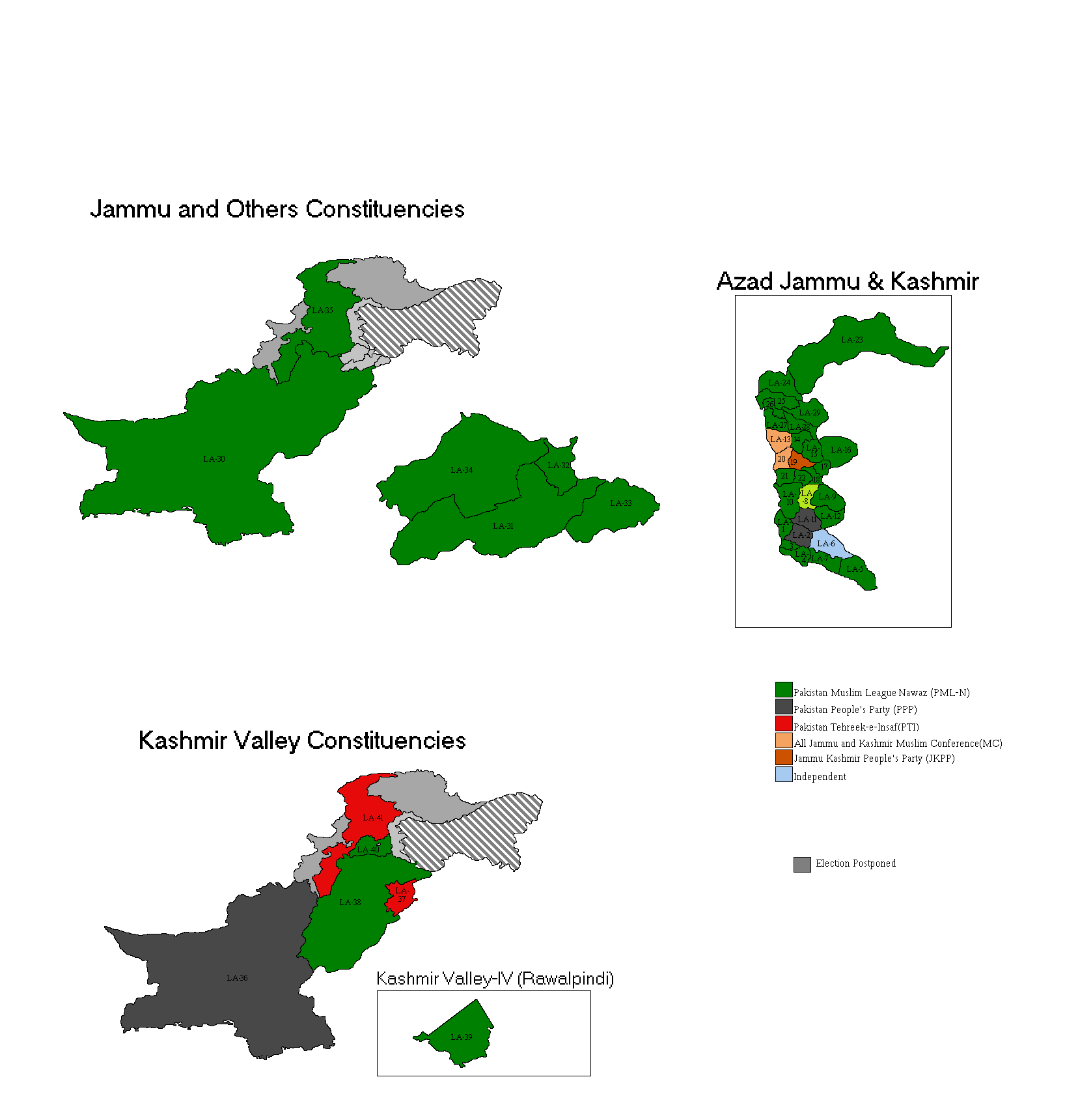 Map of Azad Kashmir showing Assembly Constituencies and winning parties